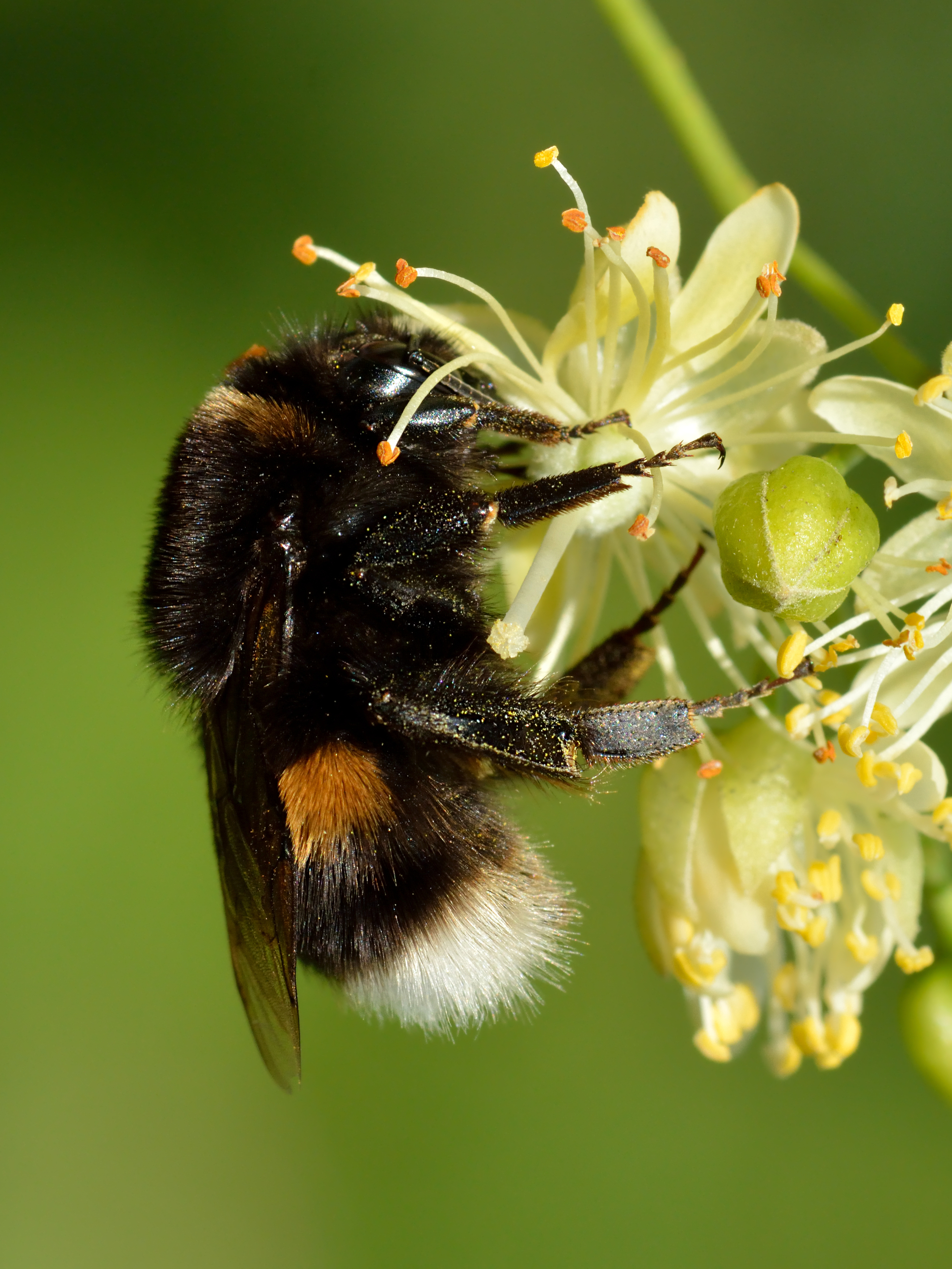 Large earth bumblebee queen (Bombus terrestris) on the flowers of small-leaved lime (Tilia cordata). Keila, Northwestern Estonia.